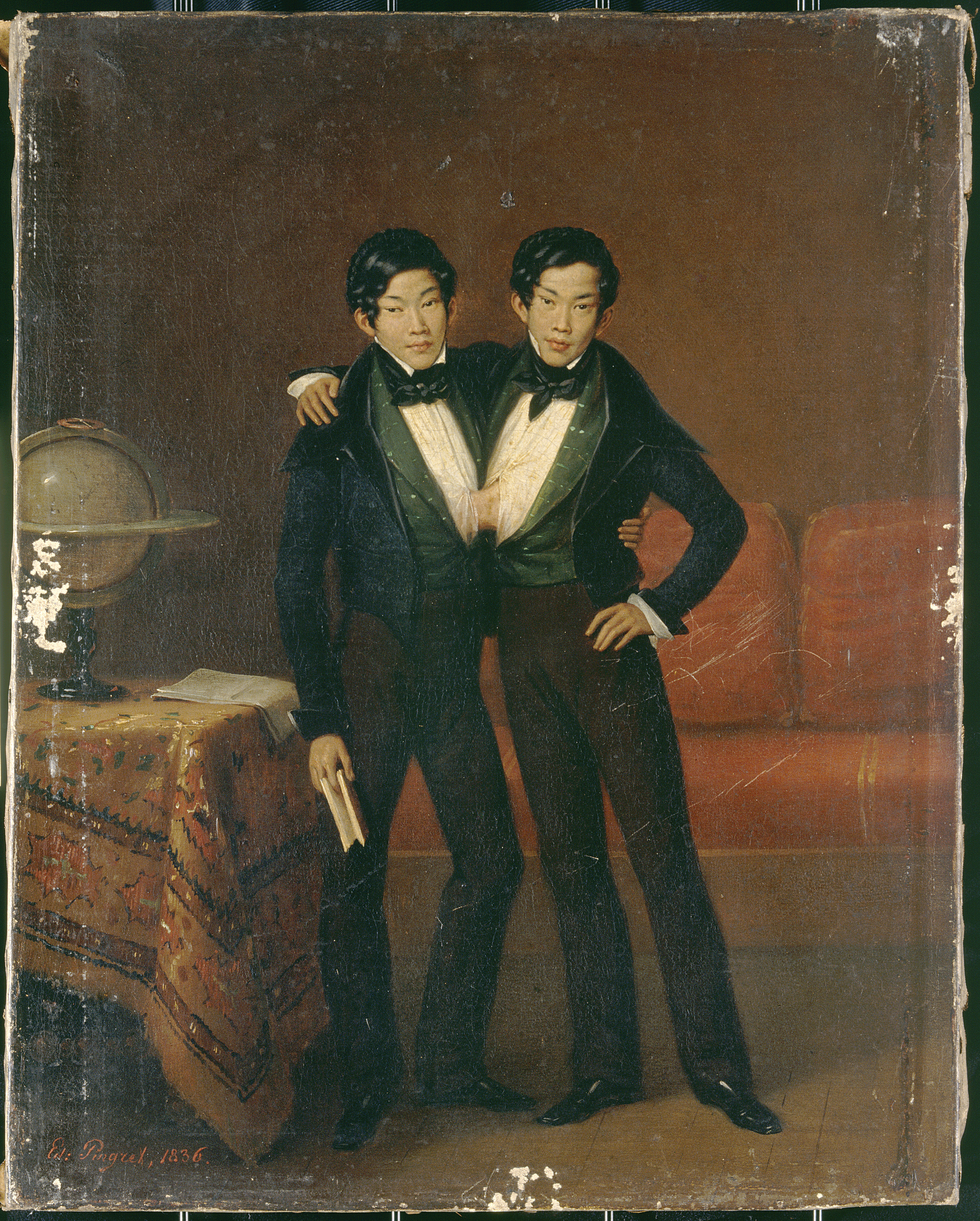 Chang and Eng, Siamese twins, 1836. Oil painting by Edouard-Henri-Théophile Pingret. Iconographic Collections Keywords: Edouard-Henri-Théophile Pingret; Chang and Eng Bunker